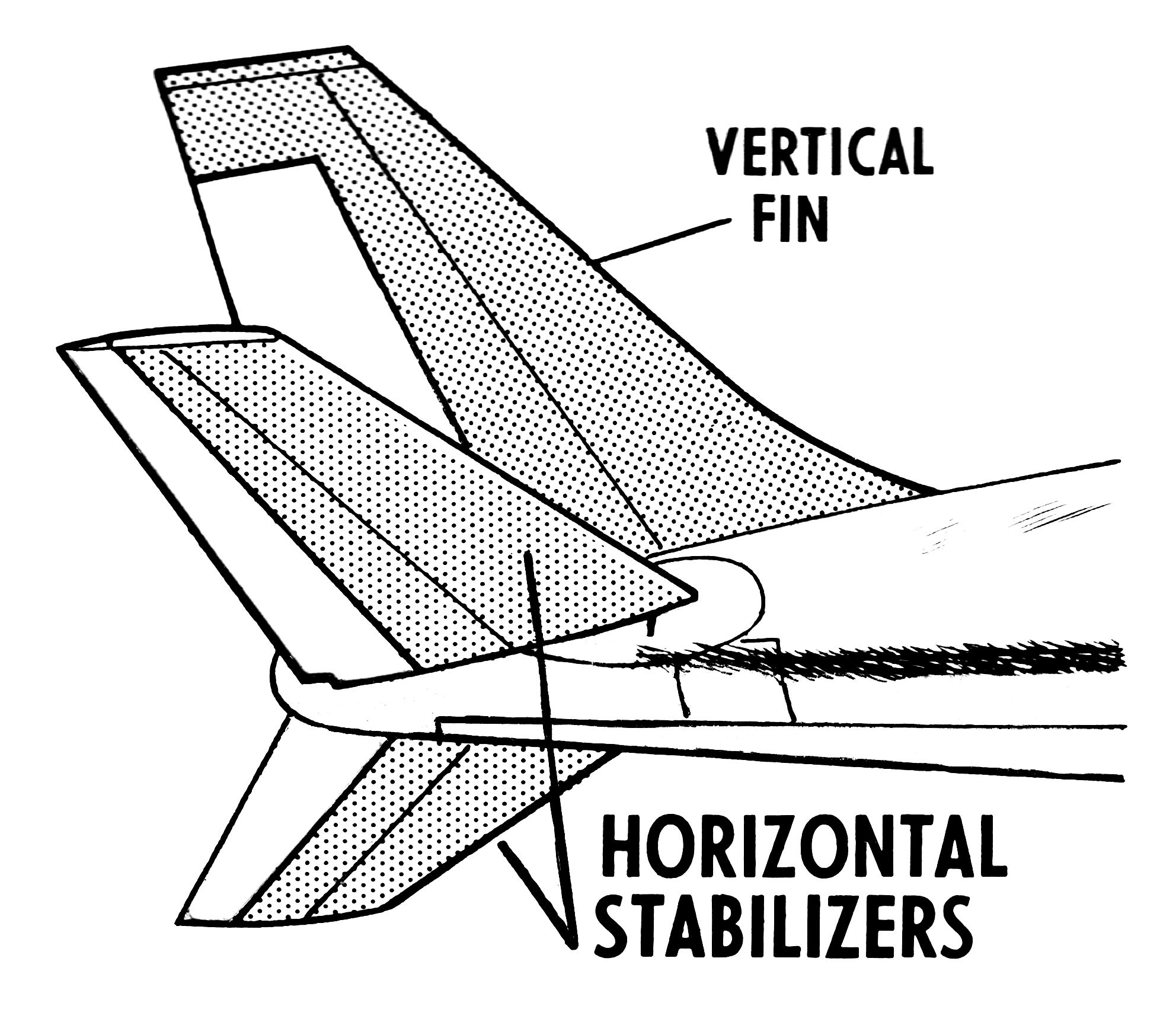 Line art drawing of a stabilizer.